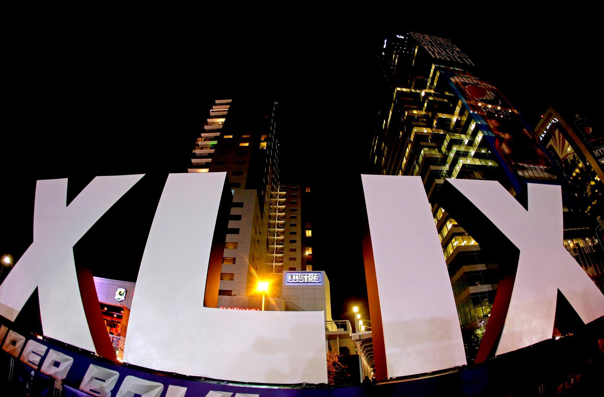 Super Bowl XLIV